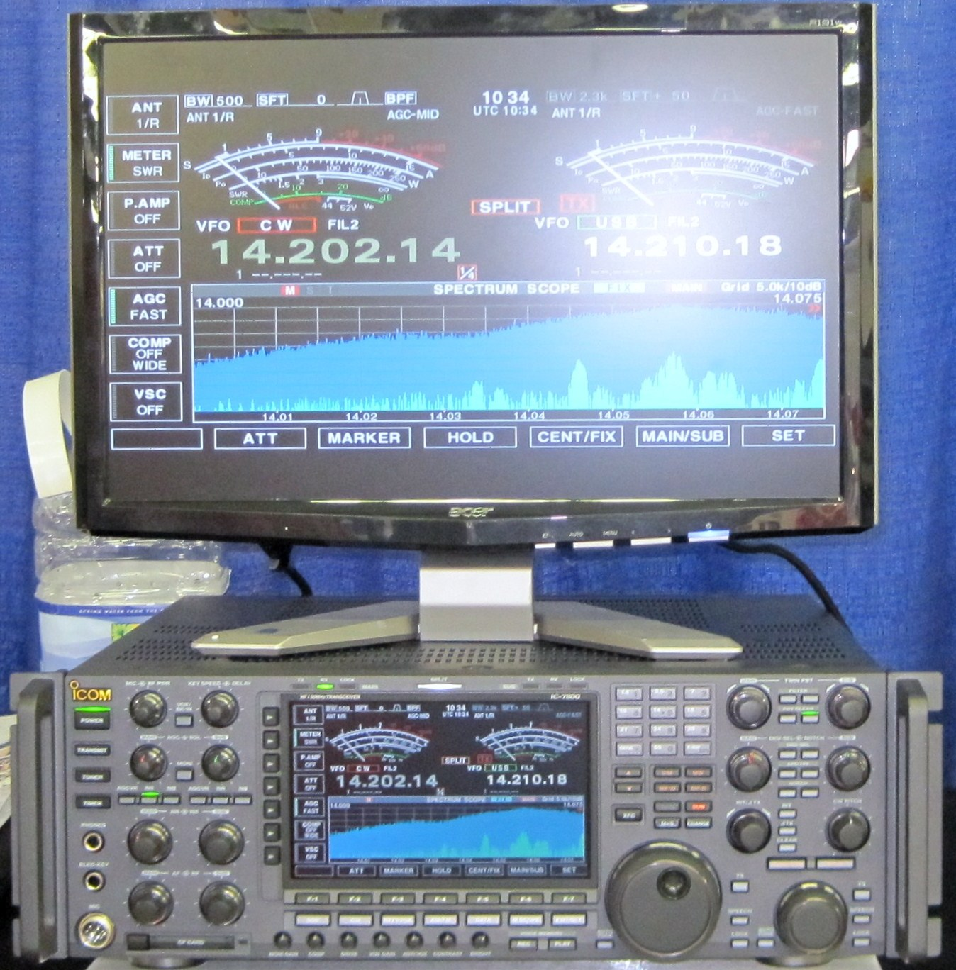 ICOM IC-7800 HF+6m transceiver with external display